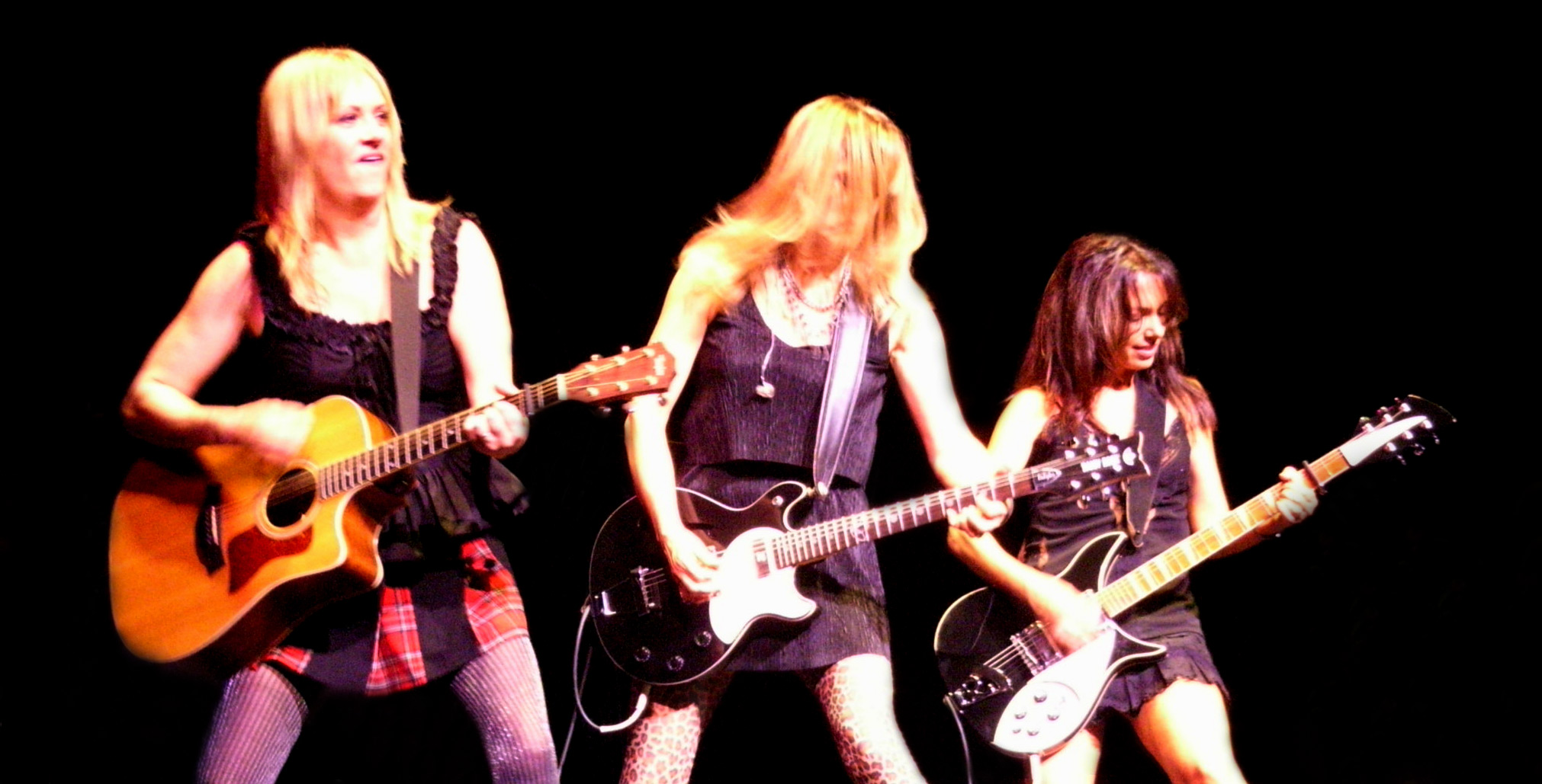 The Bangles performing live in Sydney, 22 Oct 2010.